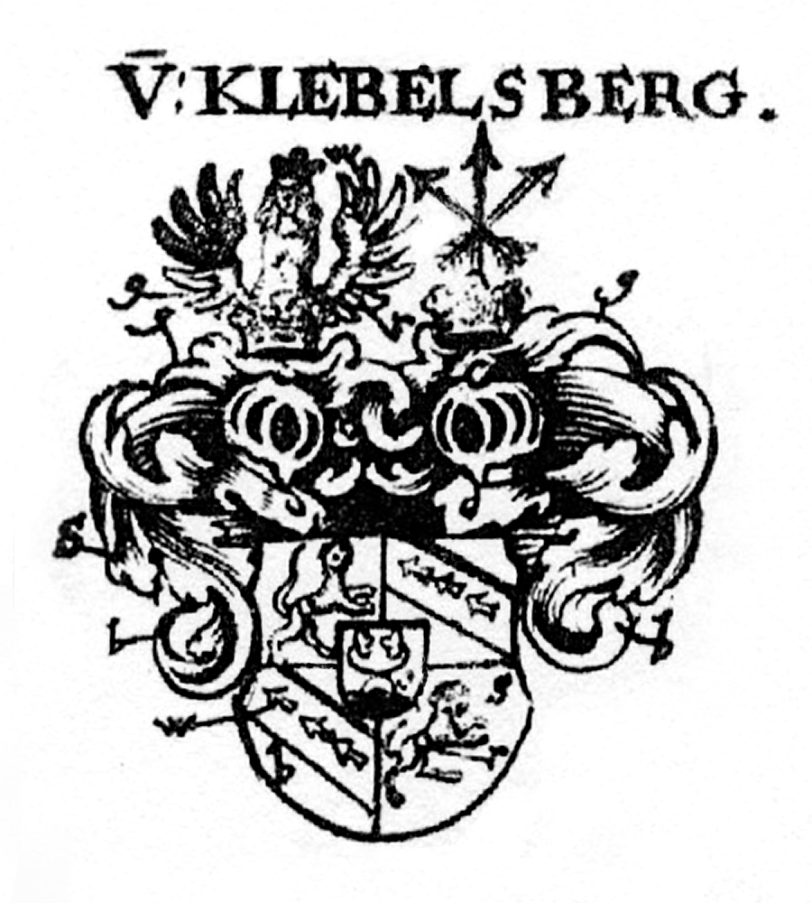 Coat of Arms of Klebelsberg